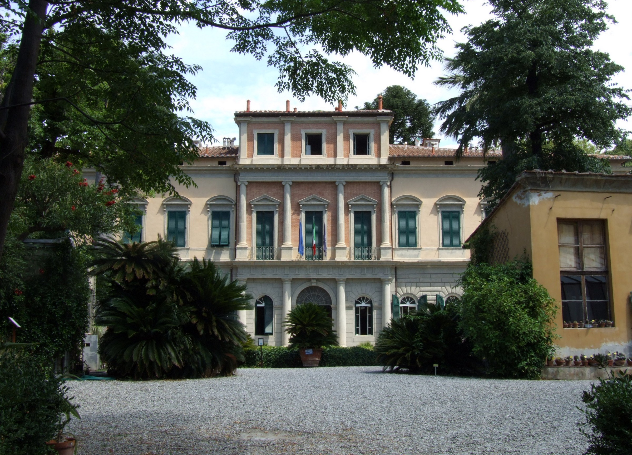 Botanical school building in the Botanic Gardens of the University of Pisa.